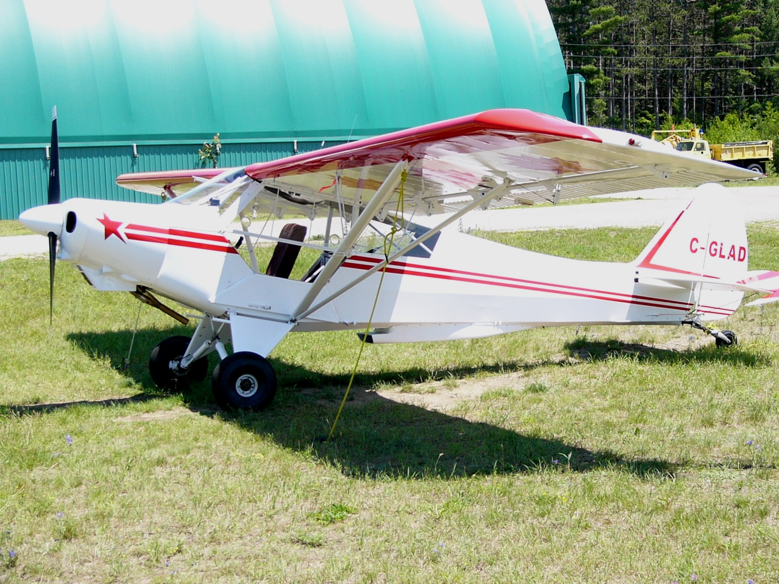 Custom Flight North Star at the Midland, Ontario, Canada Fly-in.